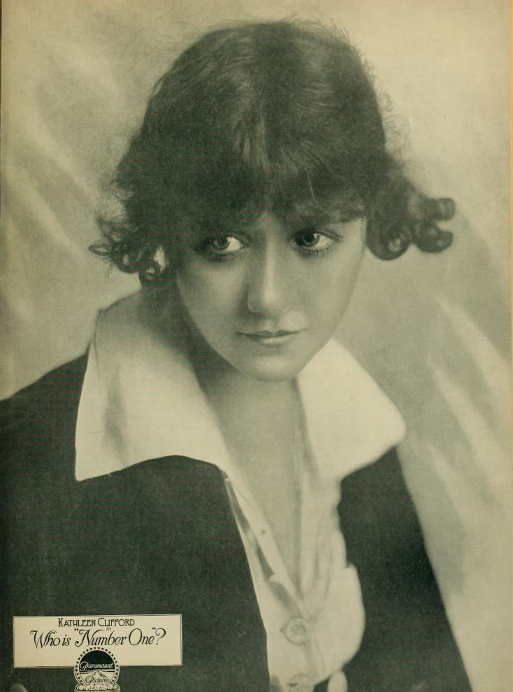 Advertisement inMoving Picture World, Nov 1917 for the American film serial Who Is Number One? (1917) with Kathleen Clifford.